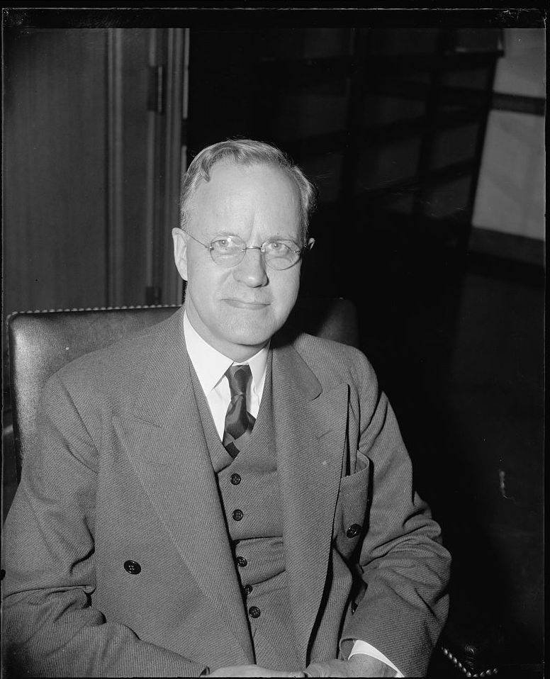 Portrait of Henry P. Chandler, first Director of the Administrative Office of the United States Courts